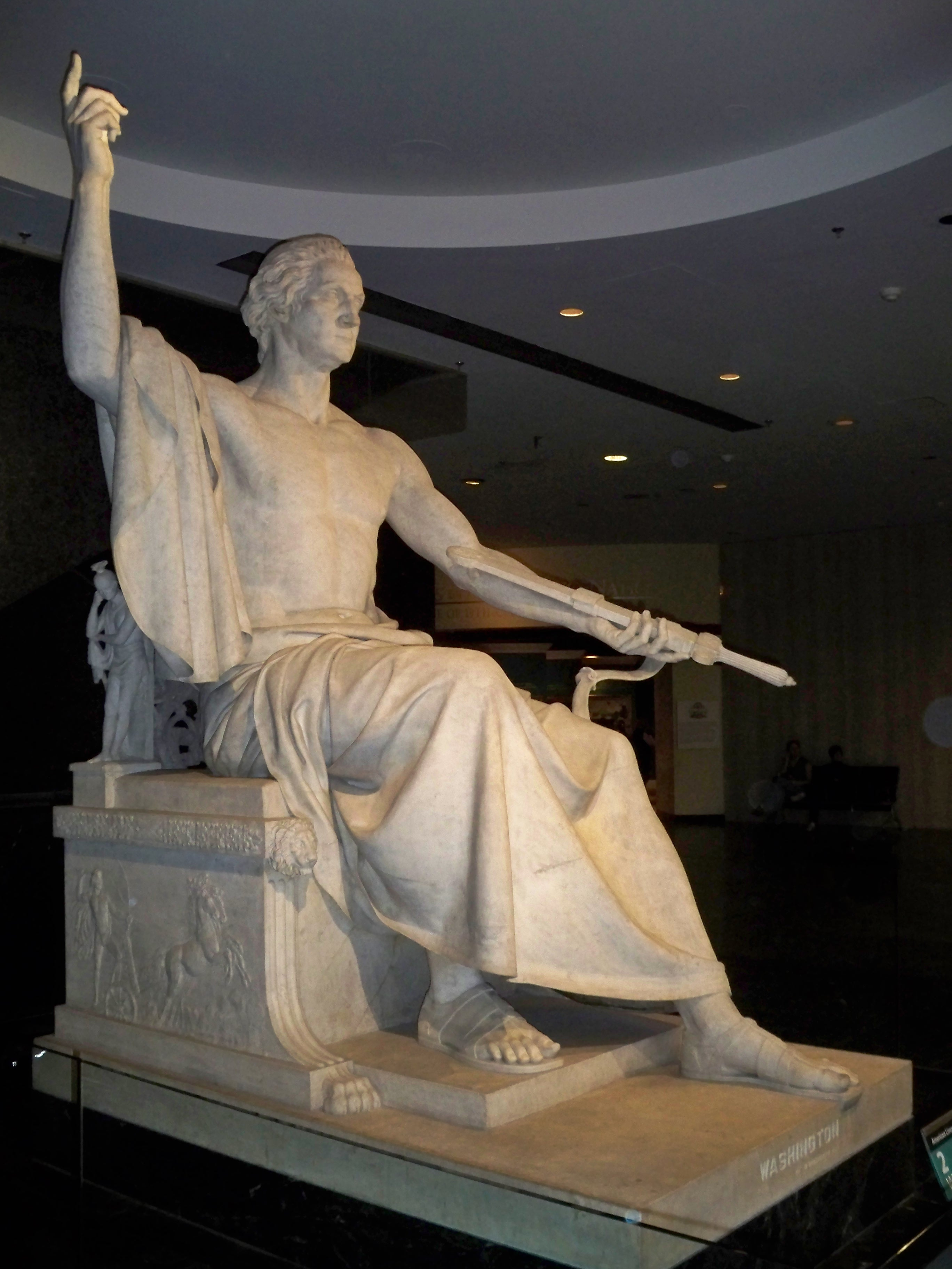 A statute of George Washington at the Smithsonian National Museum of American History.